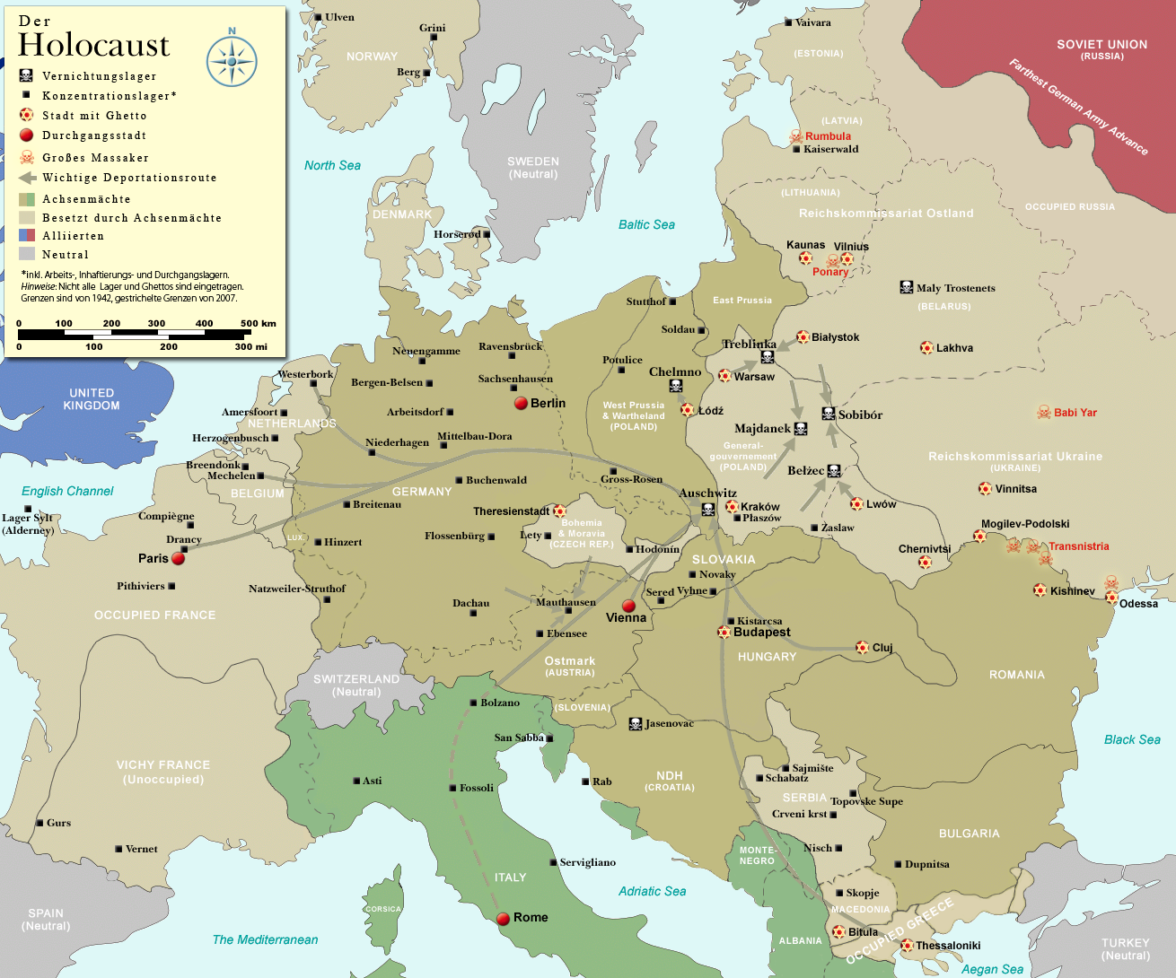 Map of the Holocaust in Europe during World War II, 1939-1945. This map shows all extermination camps (or death camps), most major concentration camps, labor camps, prison camps, ghettos, major deportation routes and major massacre sites. Notes: 1. Extermination camps were dedicated death camps, but all camps and ghettos took a toll of many, many lives. 2. Concentration camps include labor camps, prison camps & transit camps. 3. Not all camps & ghettos are shown. 4. Borders are at the height of Axis domination (1942). 5. Some regions have German designations (e.g. "Ostland"), with the present country name denoted in uppercase letters in parenthesis below the German designation (e.g. "(AUSTRIA)"). 6. Present (2007) borders are dotted.